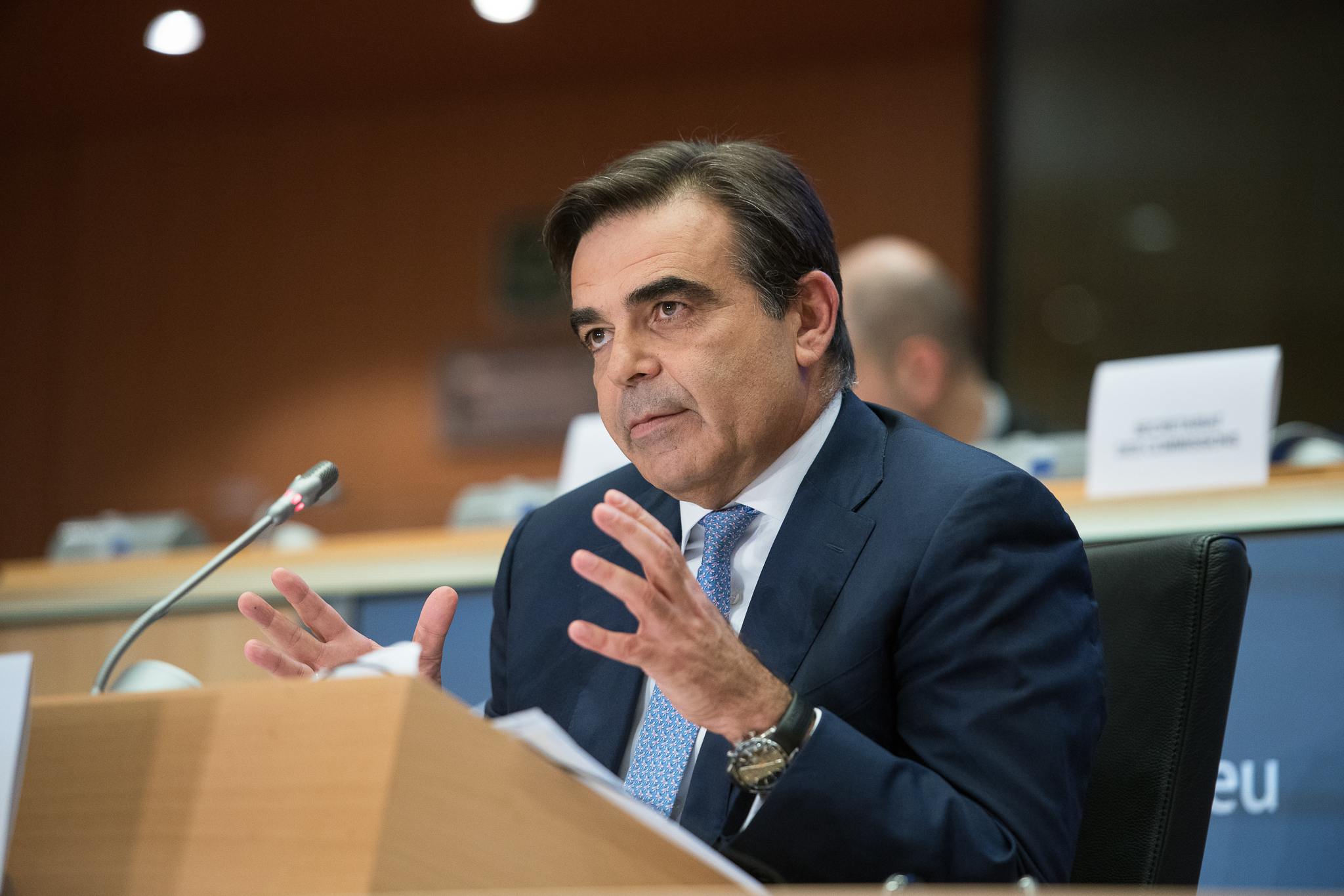 Before the European Parliament can vote the new European Commission led by Ursula von der Leyen into office, parliamentary committees will assess the suitability of commissioners-designate. On 23-26 May, more than 200,000,000 people in 28 EU countries went to the polls to elect members of the European Parliament, giving them a strong democratic mandate, including voting into office the new European Commission and examining the competencies and abilities of its commissioners-designate. Elected members of the European Parliament will also listen to their ideas and will assess their willingness to take concrete actions on the issues that Europeans care about. Each candidate commissioner is invited for a live-streamed, three-hour hearing in front of the committee or committees responsible for their proposed portfolio. The hearings will take place between Monday 30 September and Tuesday 8 October. This photo is free to use under Creative Commons license CC-BY-4.0 and must be credited: "CC-BY-4.0: © European Union 2019 – Source: EP". No model release form if applicable. For bigger HR files please contact: webcom-flickr(AT)